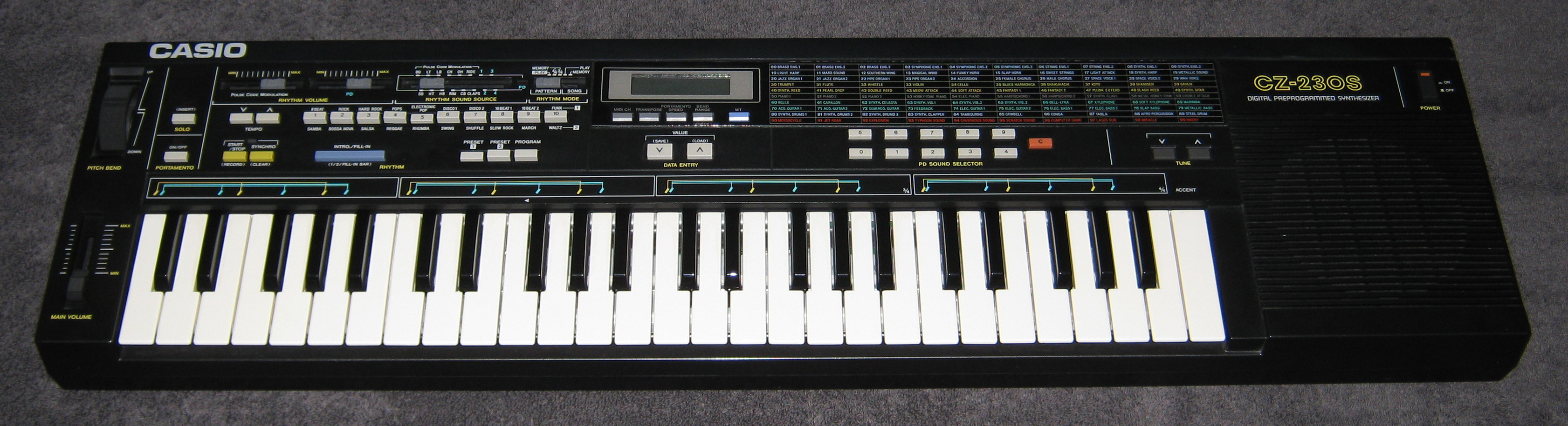 Casio CZ-230S "phase distortion" synthesiser.